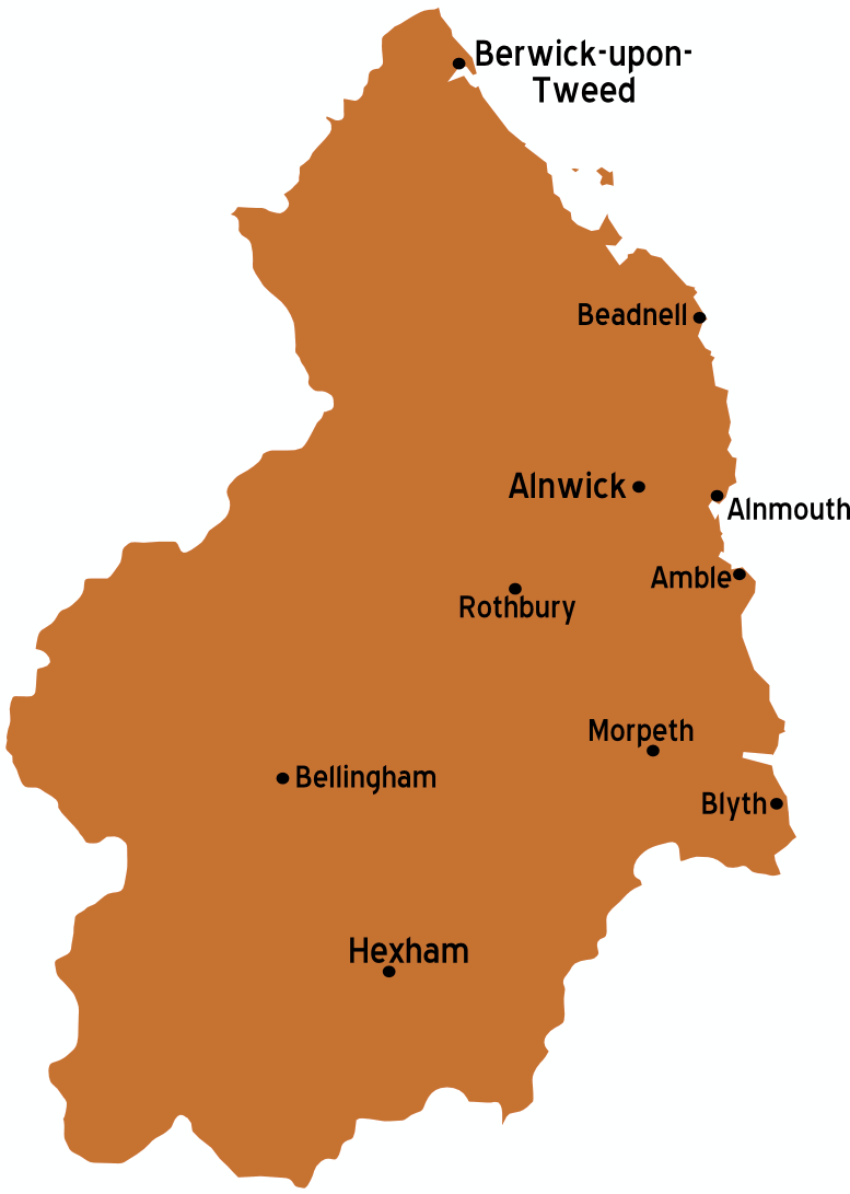 Map of Northumberland Source: :Image:UK map.svg map: England Map of: England